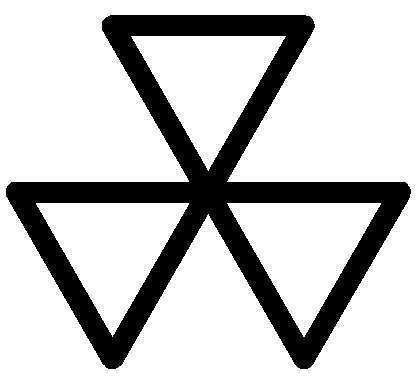 Threefold Symbol (Sign of the Fates) - three triangles intersecting at a vertex; a "unicursal" figure